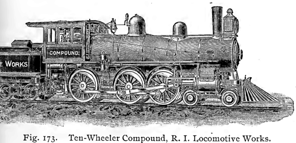 Rhode Island Locomotive Works 4-6-0 Ten Wheeler compound locomotive. Works were located in Providence, Rhode Island. From The Locomotive Catechism 1896.